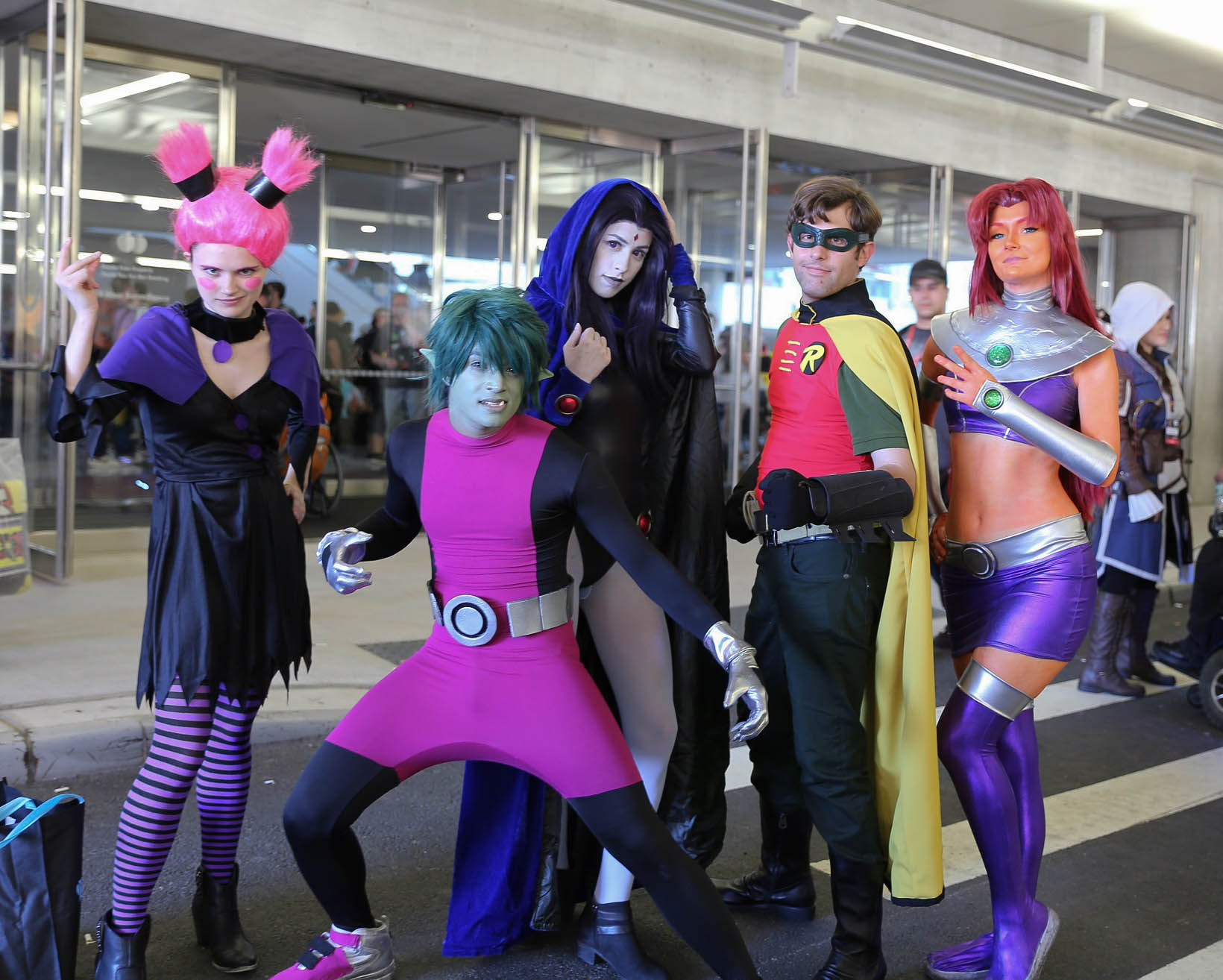 Cosplay at the 2016 New York Comic Con.